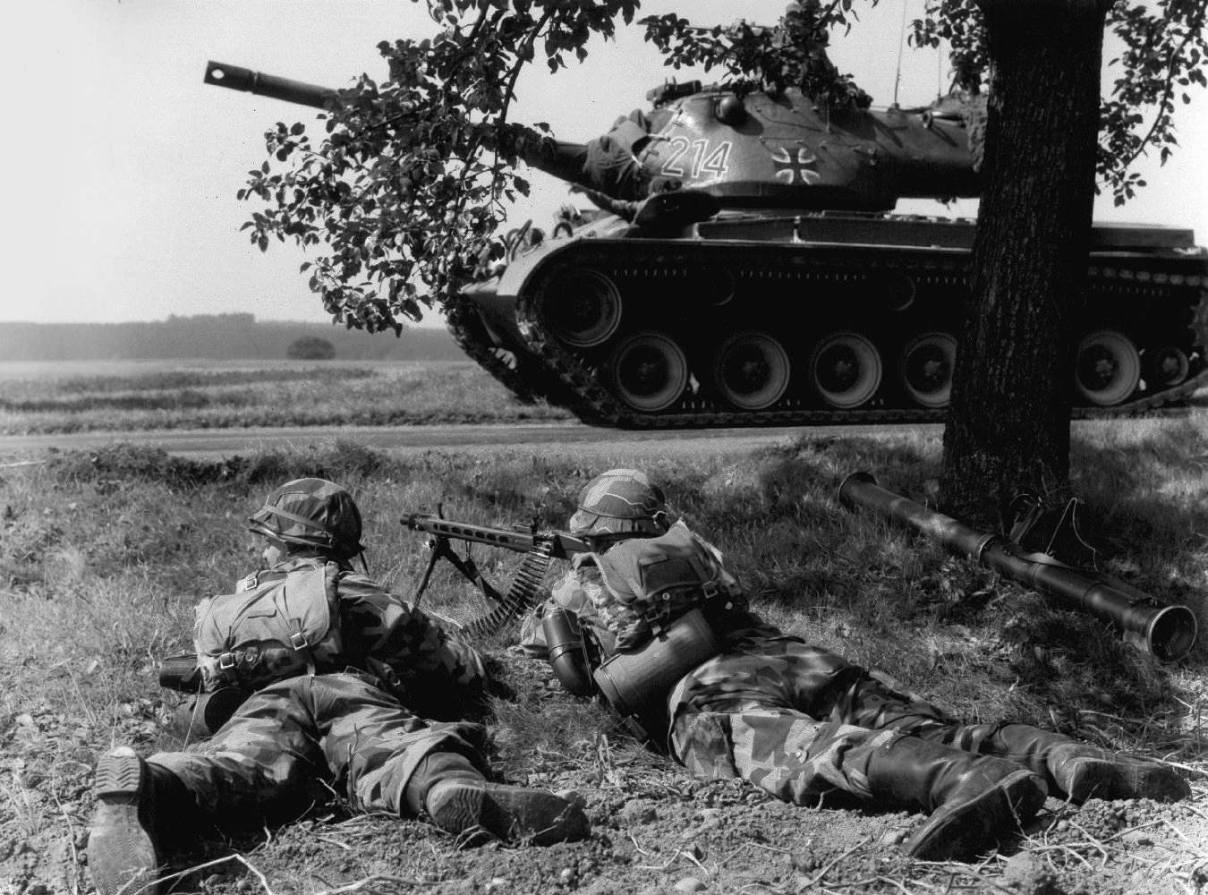 W. German tankers at armored school, W. Germany, 1960. In the foreground soldiers securing the area.